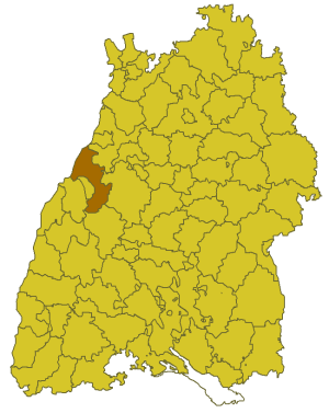 Map of Baden-Württemberg with the former county of Rastatt before 1973